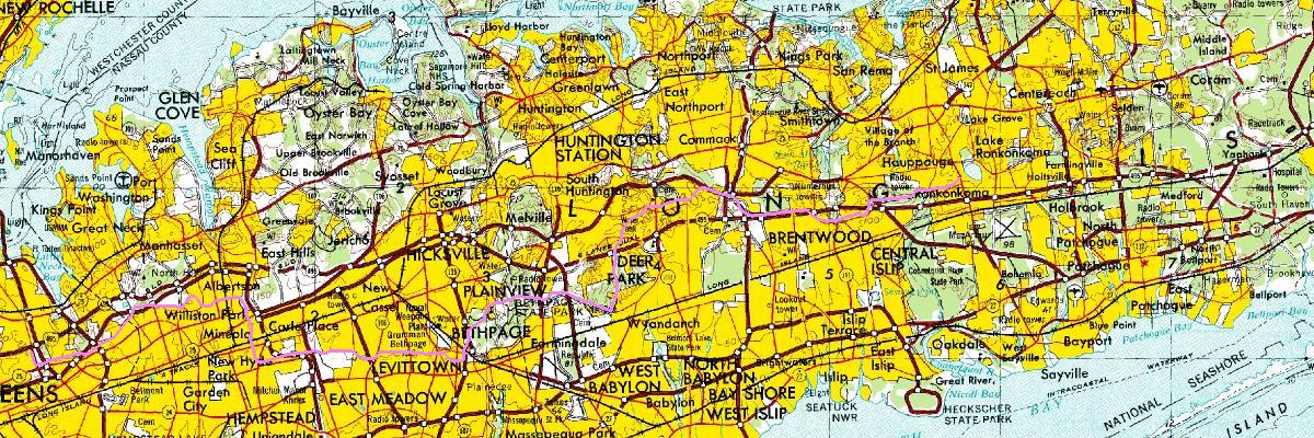 Route of the Long Island Motor Parkway